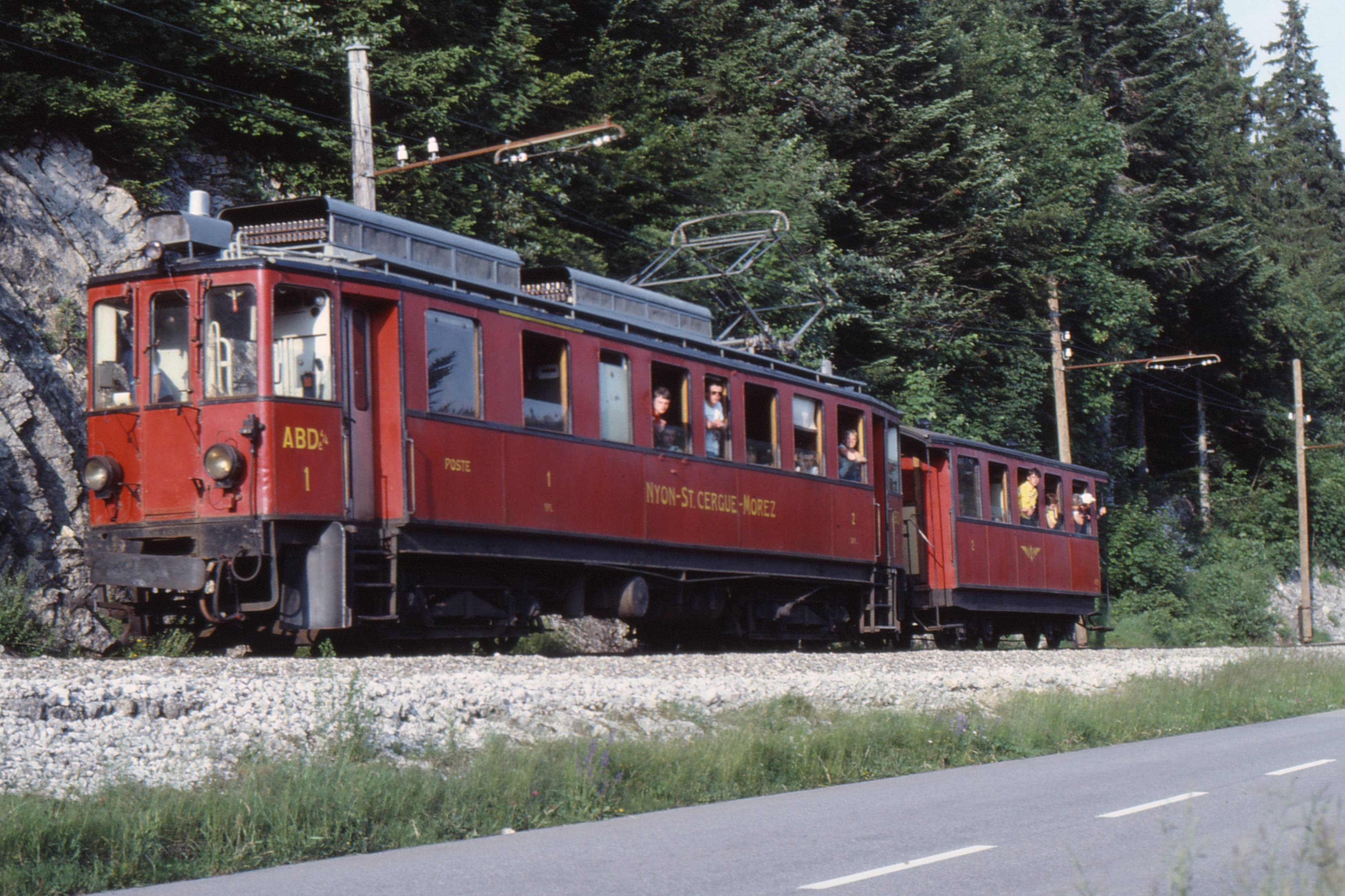 NStCM Historic Train ABDe 4/4 Number 1 near La Givrine station